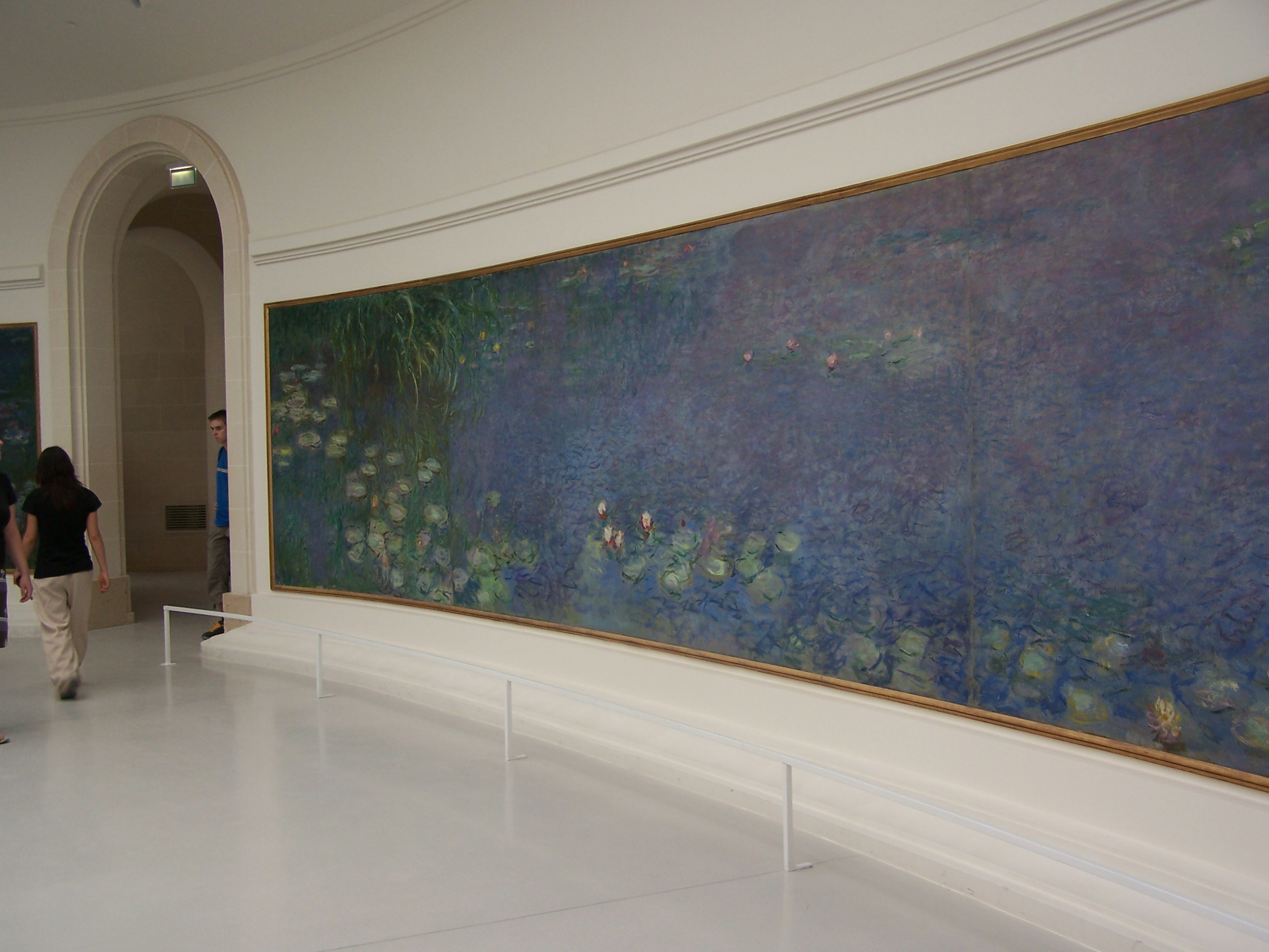 Monet's Lilies on display at The Musée de l'Orangerie, Paris